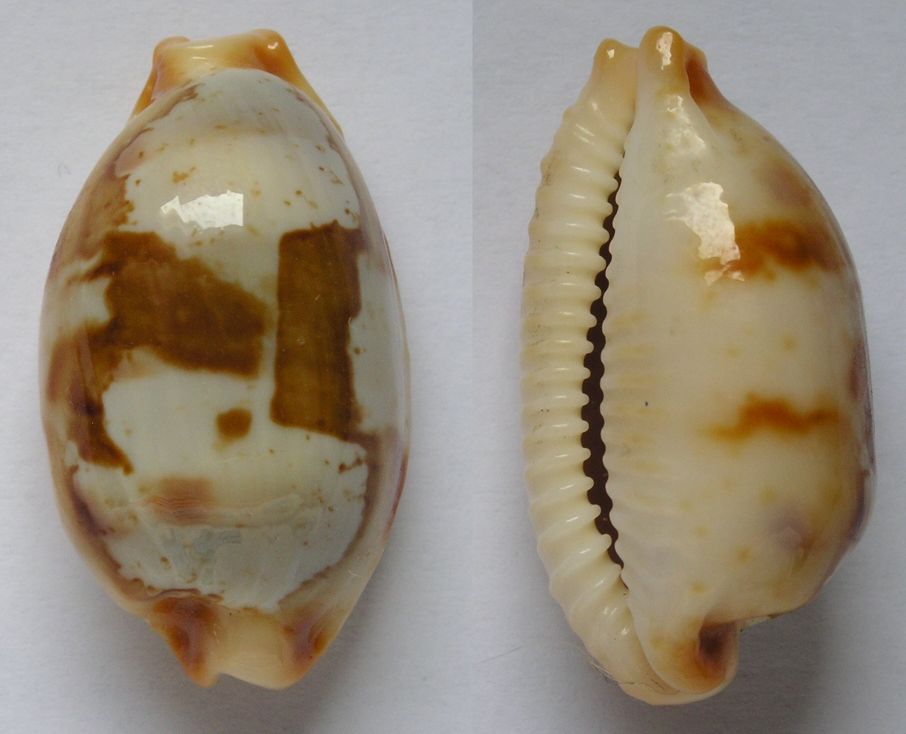 Bistolida stolida (synonym :Cypraea stolida), a stolid cowrie in the family Cypraeidae